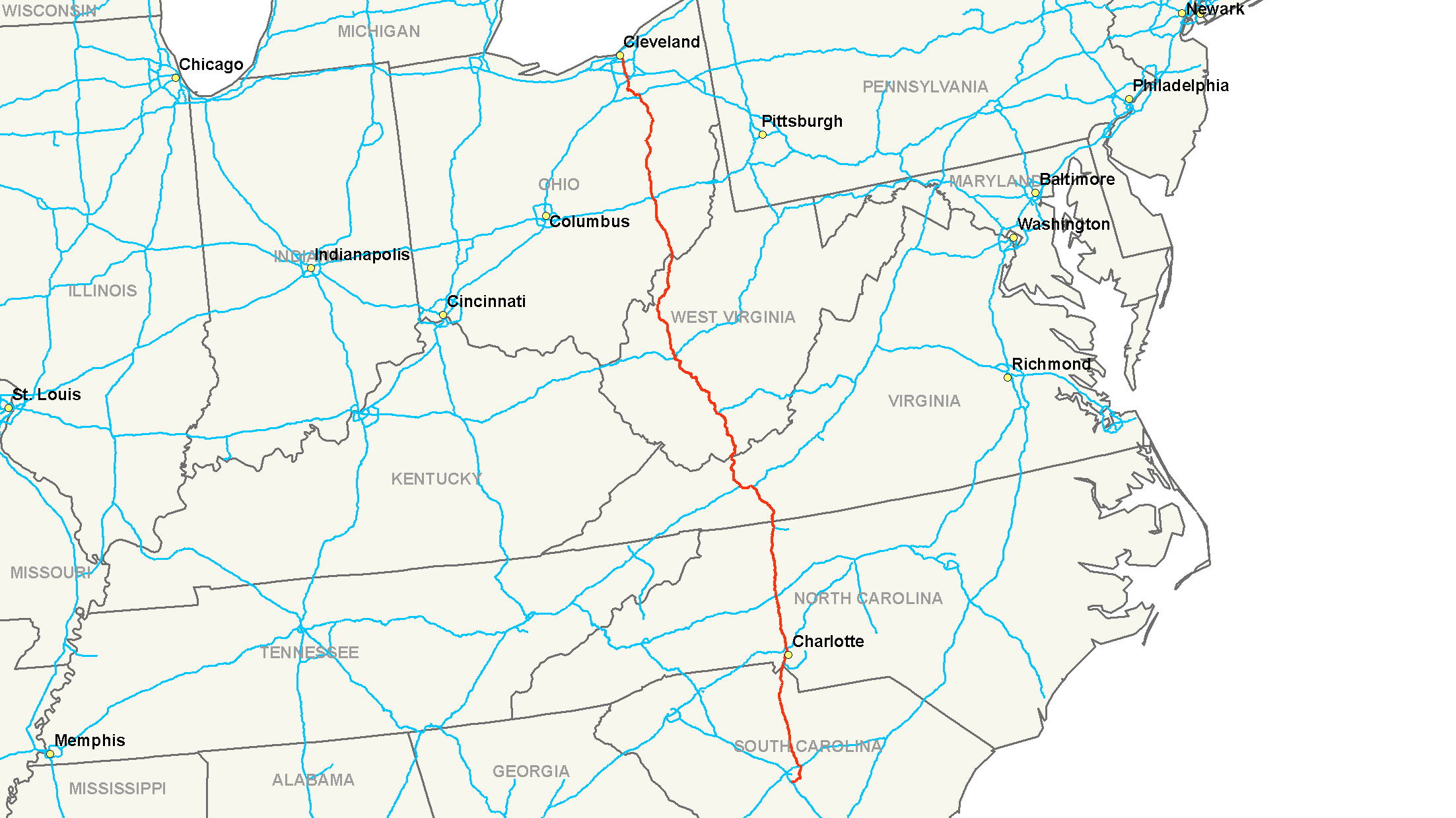 Map of Interstate 77